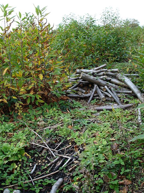 Chestnut coppice. A puzzle - the wood was cut some time in the last year, the trimmings burnt, the wood cut to length and stacked but apparently never collected for processing into fencing; maybe this is the rejected wood or maybe there is a recession in the fencing trade. The show of foxgloves next spring should be good, judging by the huge number of seedlings. This is a sweet chestnut plantation, Castanea sativa, grown for fencing. Not to be confused with the conker tree or horse chestnut, Aesculus hippocastanum.